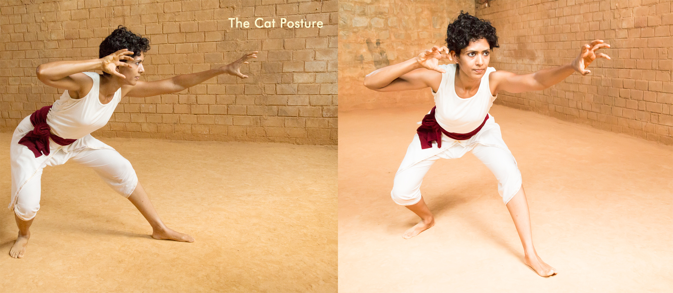 Marjara Vadivu or Cat Posture in Kalaripayyattu.